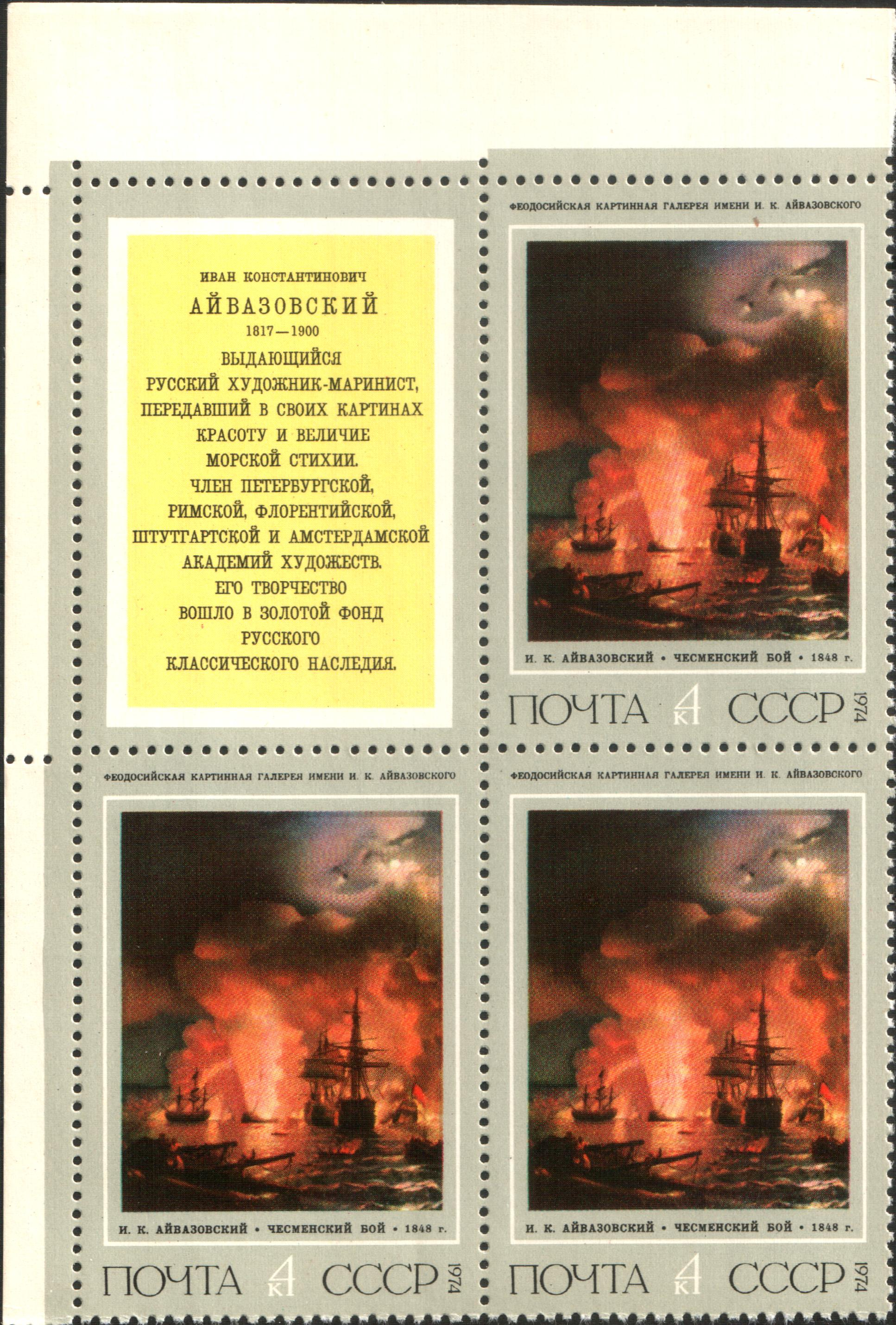 USSR stamp